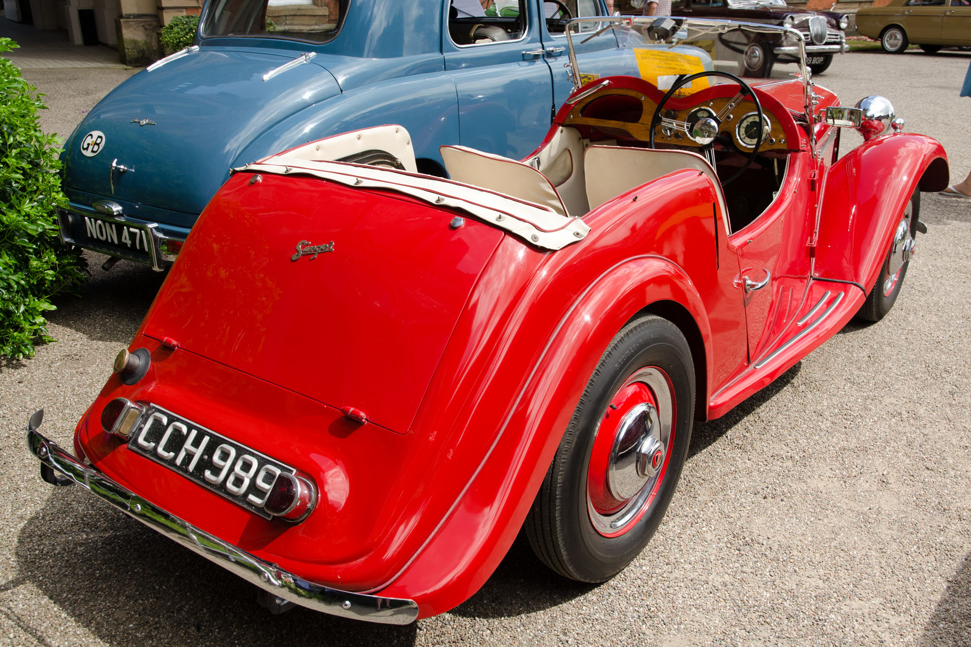 1950 Singer 4AB roadster (DVLA) first registered 31 January 1951, 1074 cc Capesthorne Hall Classic Car Show 27/07/2014